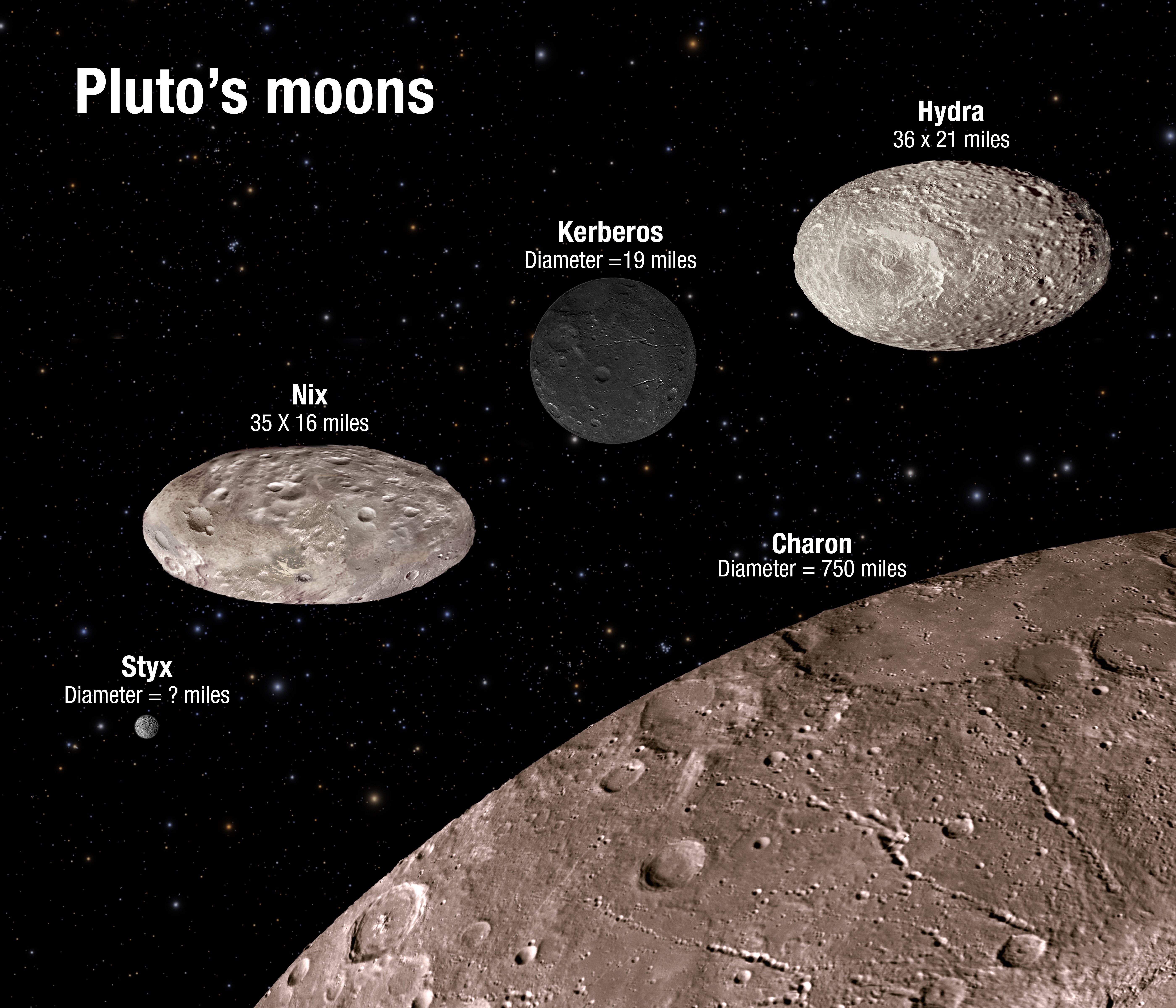 This illustration shows the scale and comparative brightness of Pluto’s small satellites. The surface craters are for illustration only and do not represent real imaging data. Credits: NASA/ESA/A. Feild (STScI)